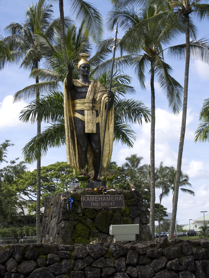 Kamehameha the Great united the Hawaiian islands in 1810. Some of them didn't want to be united, and the unification wasn't peaceful. According to legend, he was seven feet tall. Some of his robes that still exist corroborate this.